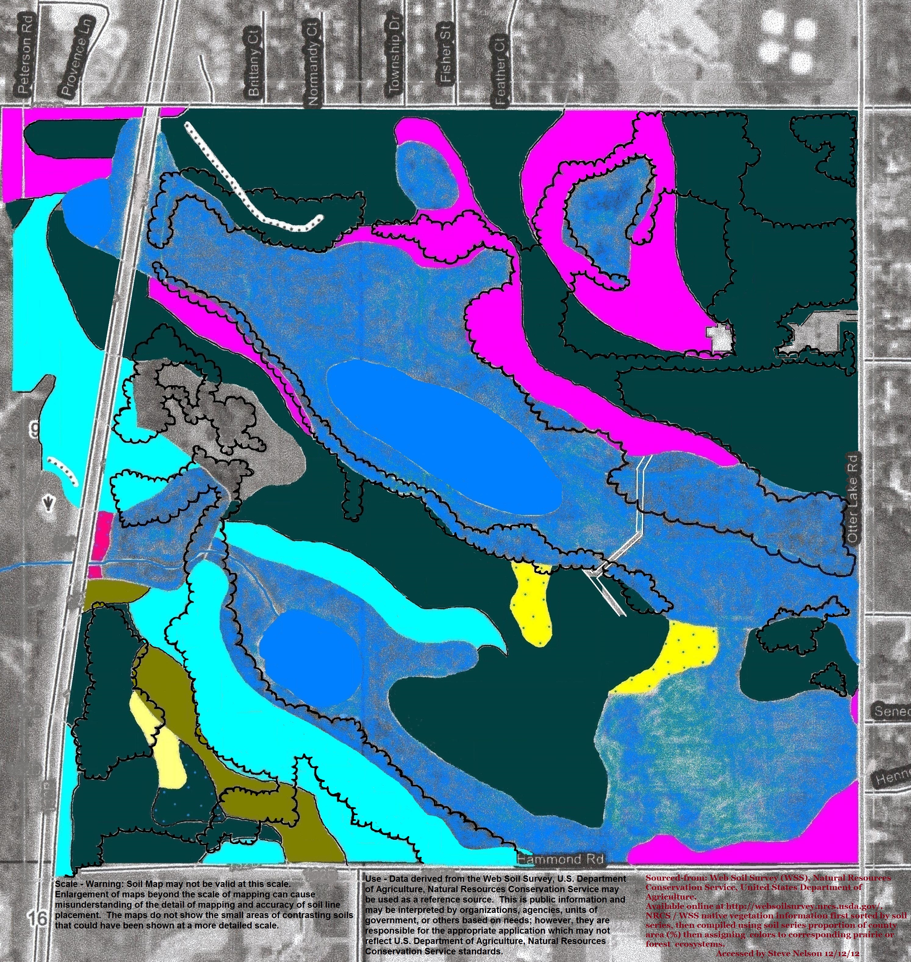 Tamarack Nature Center is located in White Bear Township, Ramsey County Minnesota. Use the native vegetation pie chart to define colors on this map.